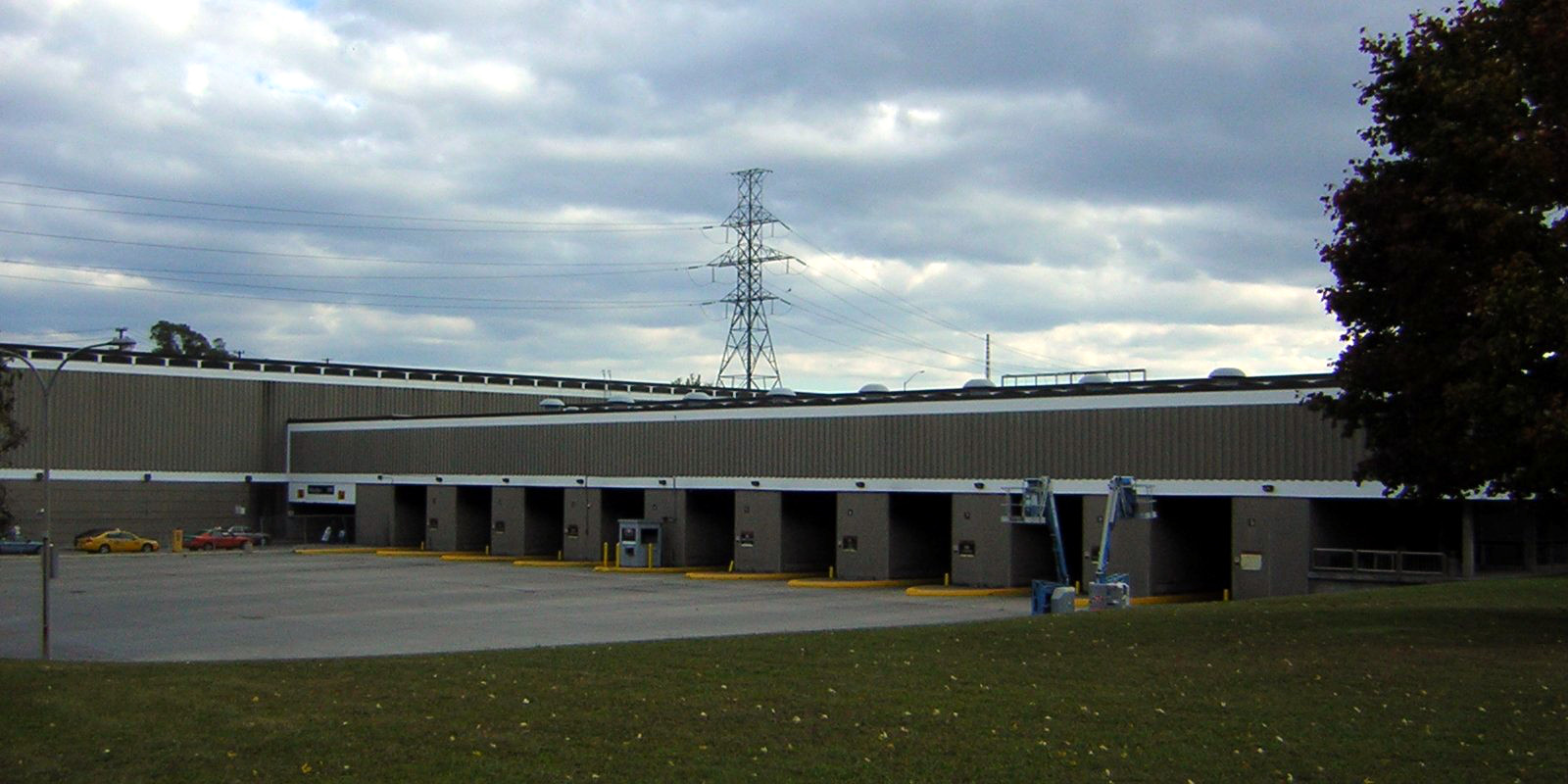 Warden subway station in Toronto. Entrances on the north side of the bus platforms